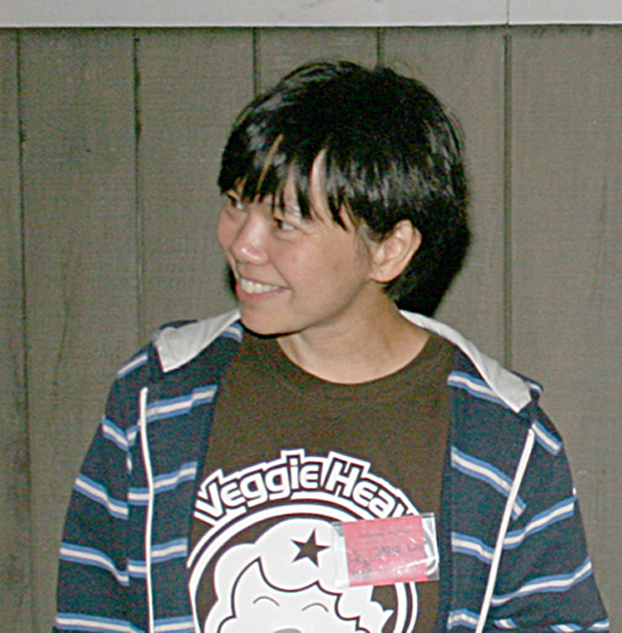 Jane Luu gave the featured presentation at Stellafane, VT on Aug 3,2011 to a group of 600 amateur astronomers and described her observations of Kuiper Belt Objects